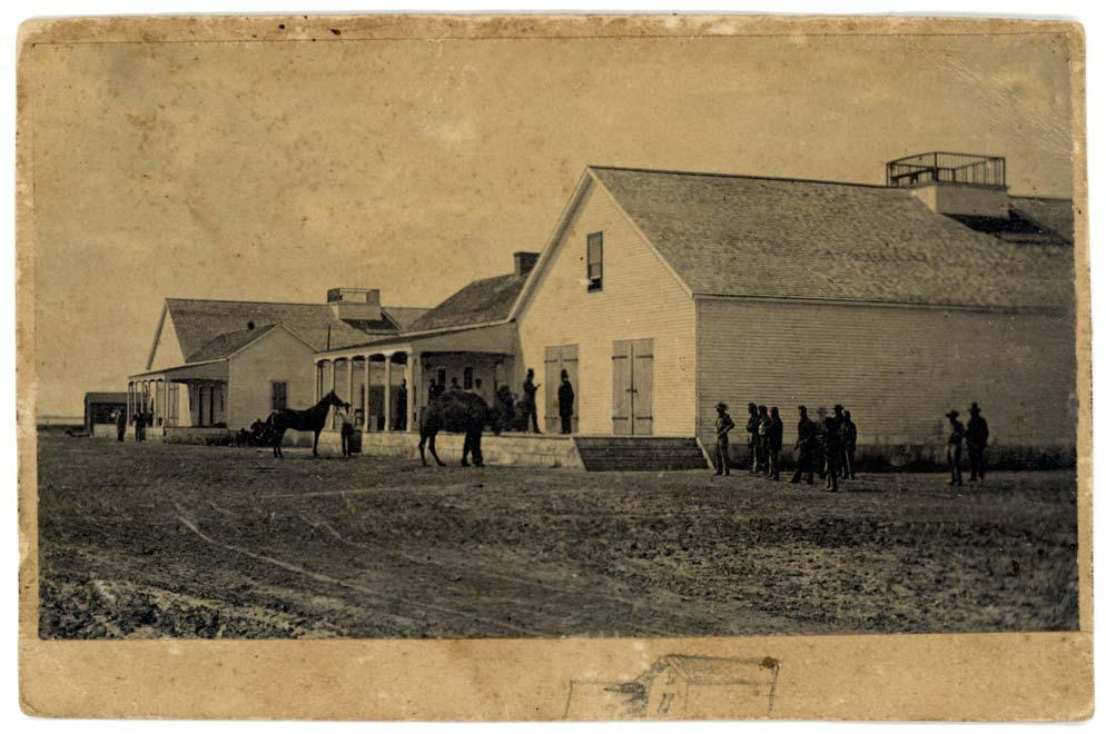 Only known surviving photo of the U.S. Camel CorpsFound at , this image is of a camel tied up outside what appears to be a frontier location; the photo is captioned, "A member of the legendary southwestern 'Camel Corps' stands at ease at the Drum Barracks military facility, near California’s San Pedro harbor."